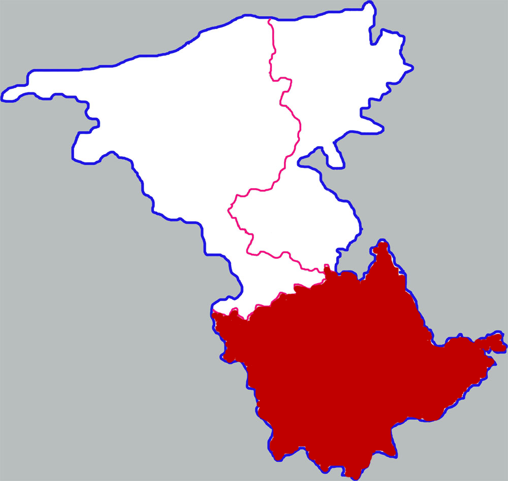 Location of Haiyuan county in Zhongwei city, China